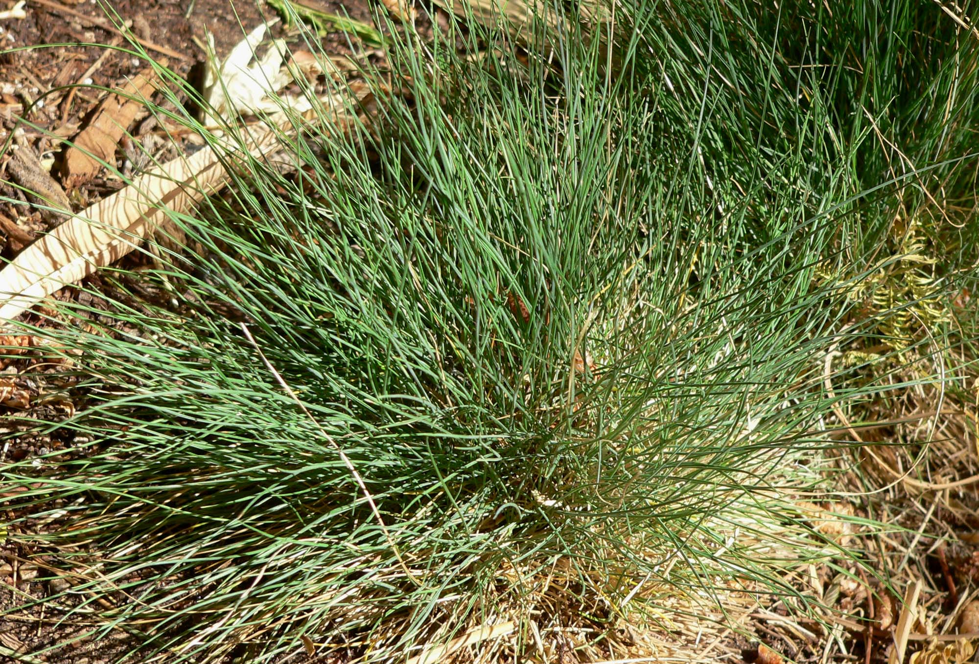 Photo of Festuca amethystina at the Springs Preserve garden in Las Vegas, Nevada